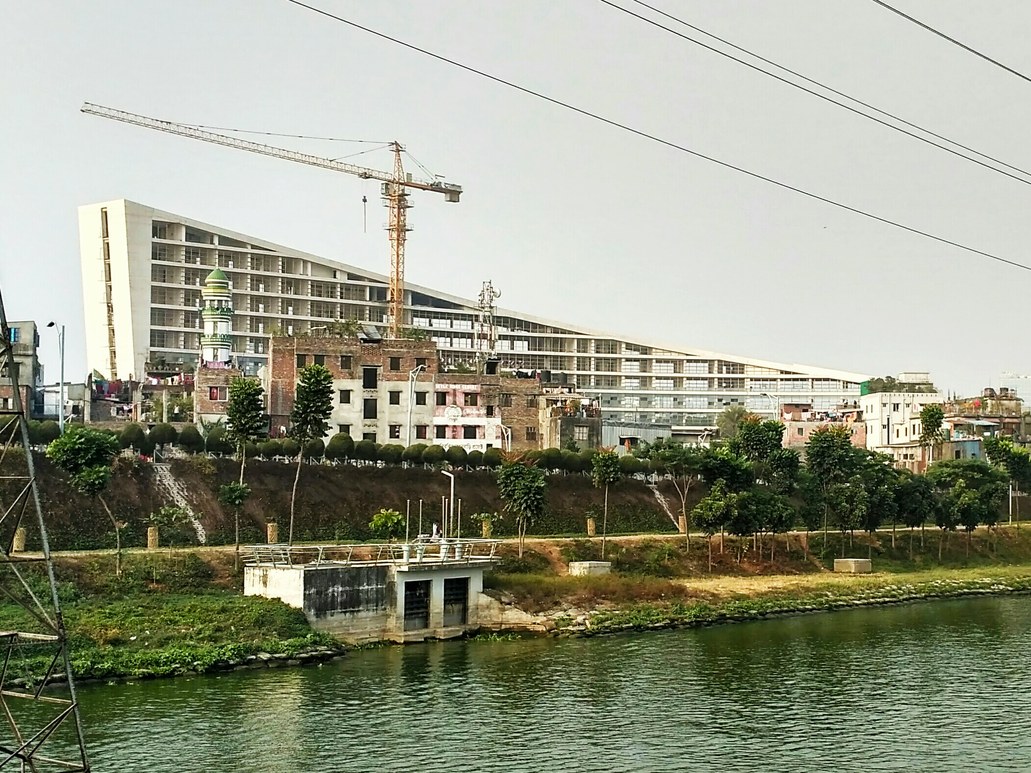 Office of the Chief Engineer, RHD, Road and Highway Department, Sarak Bhaban, Kunipara, Tejgaon, Dhaka, under construction in December 2018.